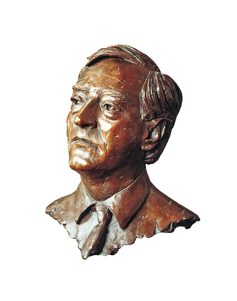 Lord McDonald bronze portrait